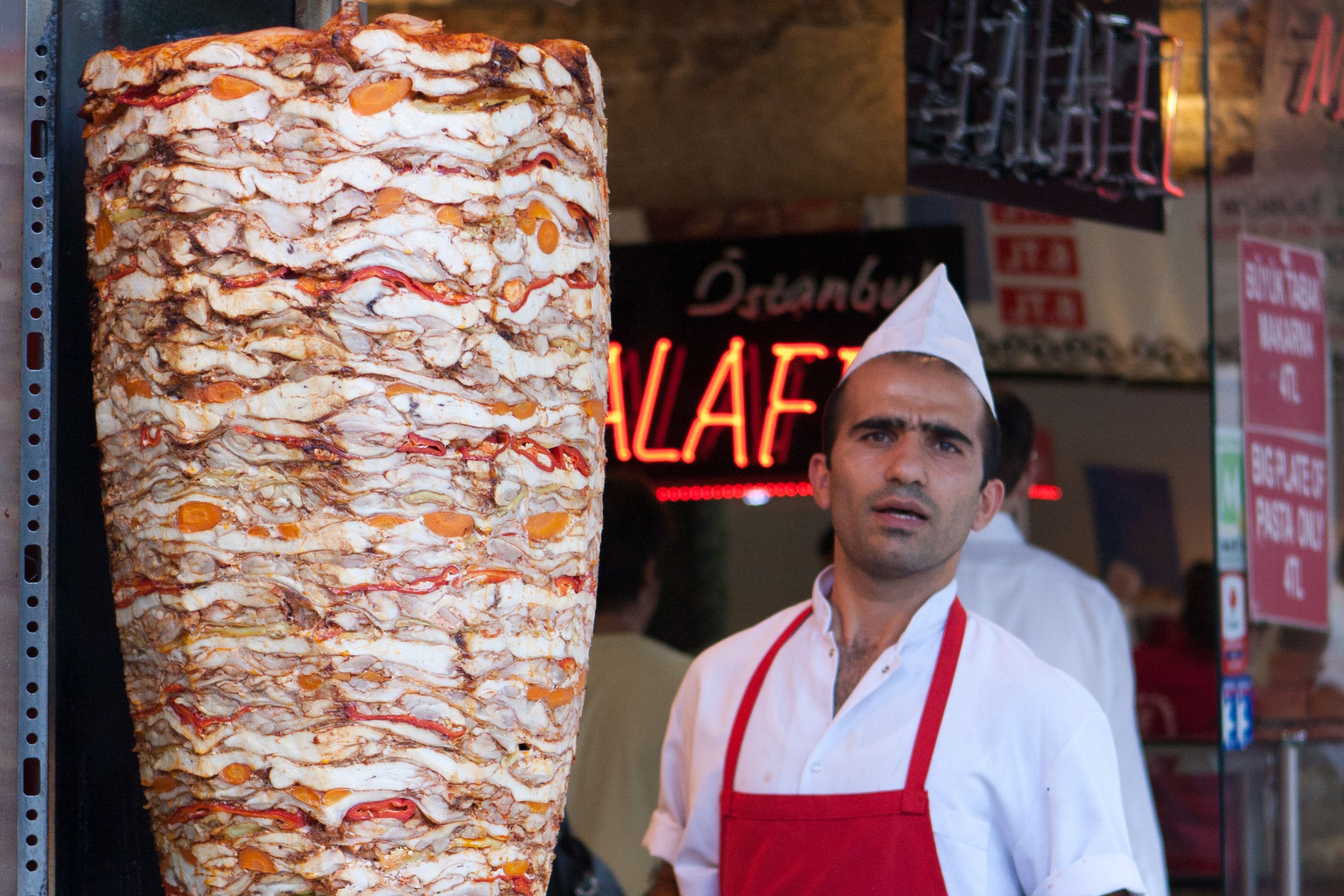 Döner Kebab this spit has carrots and bell peppers stuffed between the meat. I don't think the guy wanted his photo taken. Istanbul, Turkey, September 2011